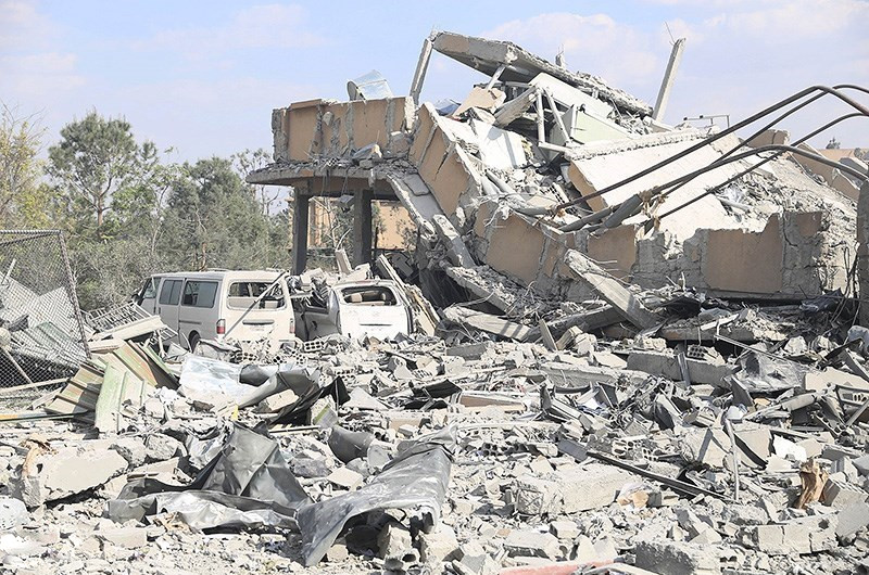 The ruins of the 2018 American-led bombing of Damascus and Homs